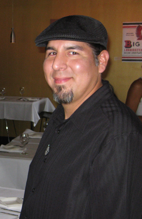 Brent Greenwood, Chickasaw-Ponca artist and singer. Enrolled in the Ponca Tribe of Indians of Oklahoma